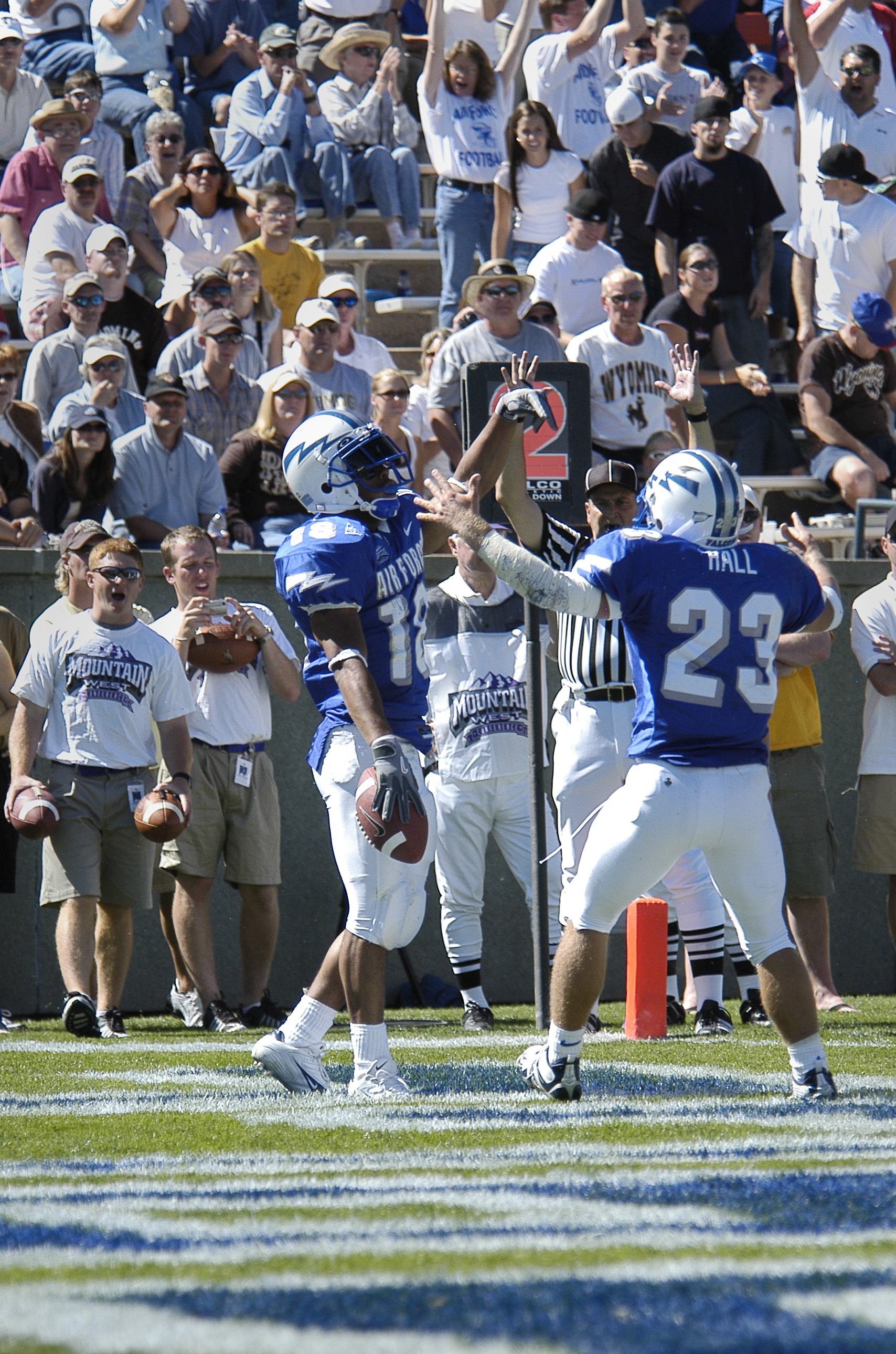 U.S. AIR FORCE ACADEMY, Colo. -- Air Force halfback Chad Hall, 23, helps fellow running back Justin Handley celebrate his first career Falcon touchdown here Sept. 17 against the University of Wyoming. Hall later scored his first career Air Force touchdown in the same game. The Cowboys went on to edge the Falcons 29-28. (U.S. Air Force photo by 2nd Lt. John Ross)